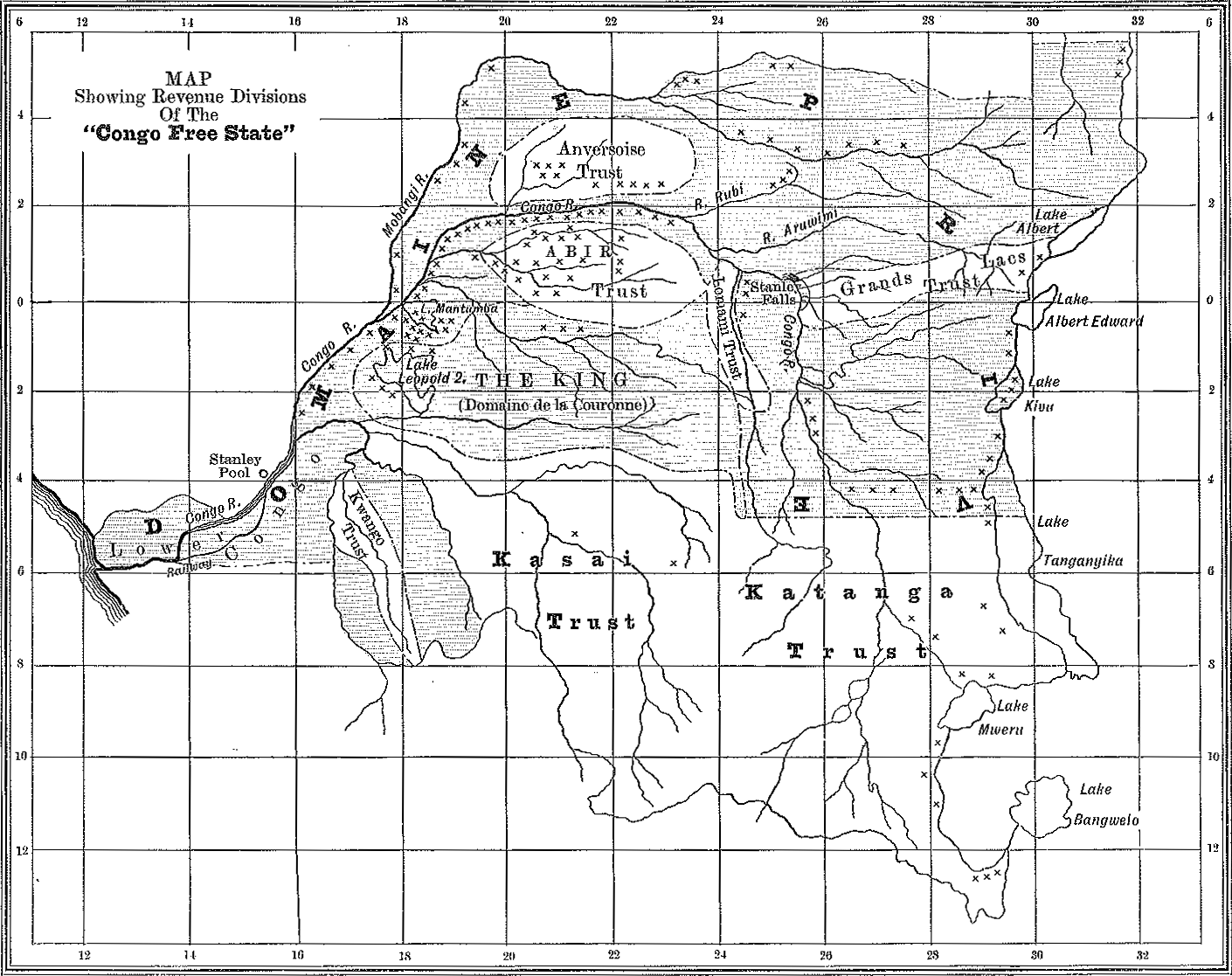 Map of concessions etc. in the Congo Free State. Taken from Morel’s Red Rubber (edition from 1906). The crosses mark places of documented atrocities. The different colours are used to differentiate “Domaine Privé”, “Domaine de la Couronne” and “Trusts Area”.